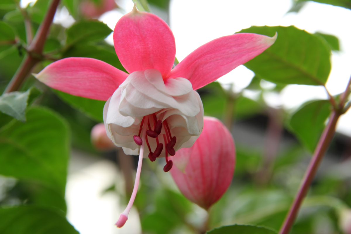 My flowers make peculiar elegant shapes, not only able to serve as pot plants decorating balconies, windowsills or studies, but able to hang on burglar meshes or gallery frames as ornaments. My flower language is "believing in Love" and "vehement heart".